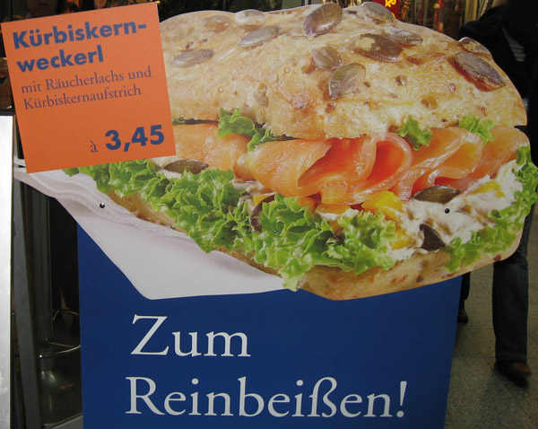 Examples for differing vocabulary in Austrian Standard German "Weckerl" is a small bread, in this case baked with pumpkin seeds and filled with smoked salmon and pumpkin pâté.